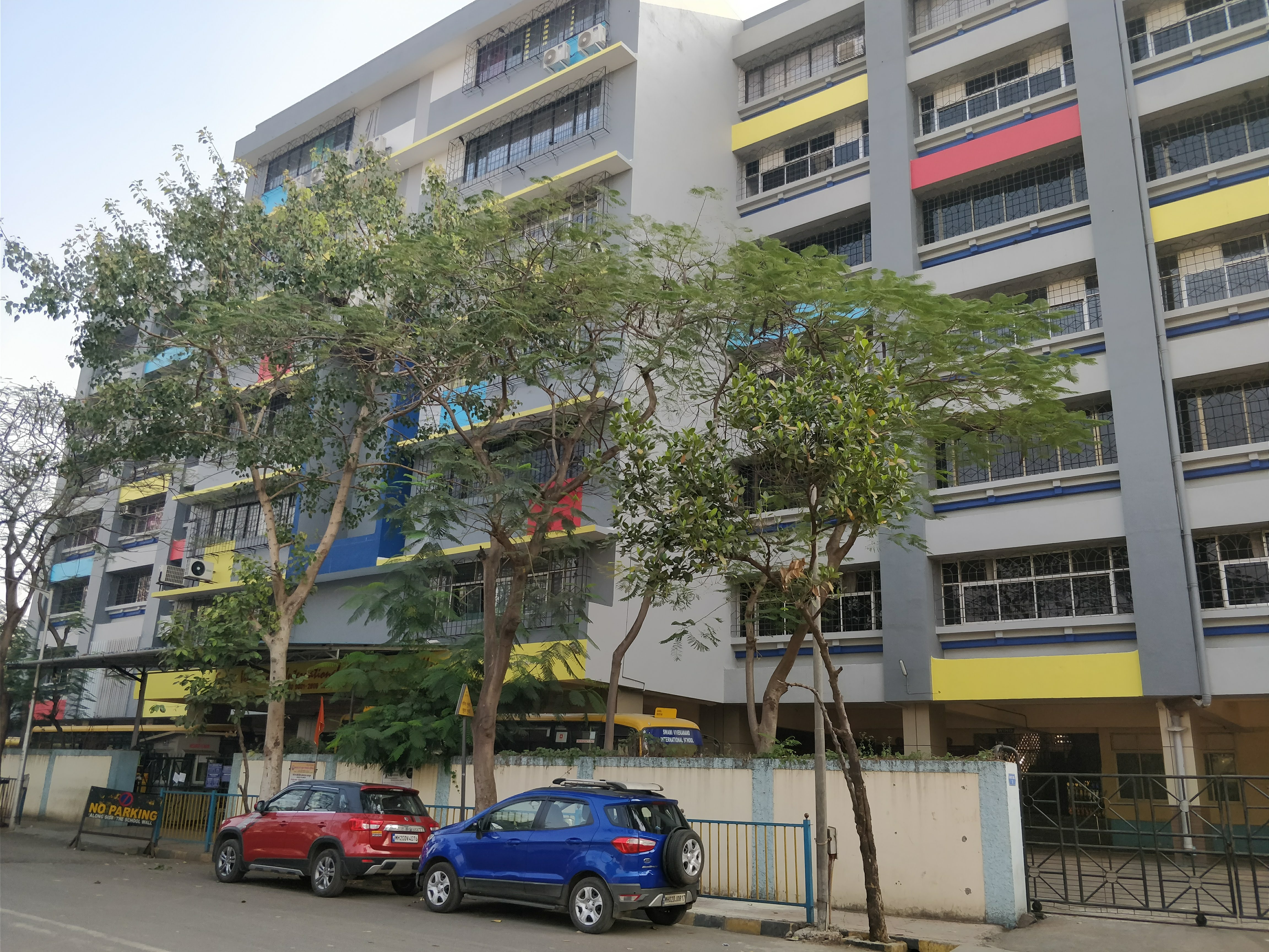 Swami Vivekanand International School, Kandivali West, Mumbai